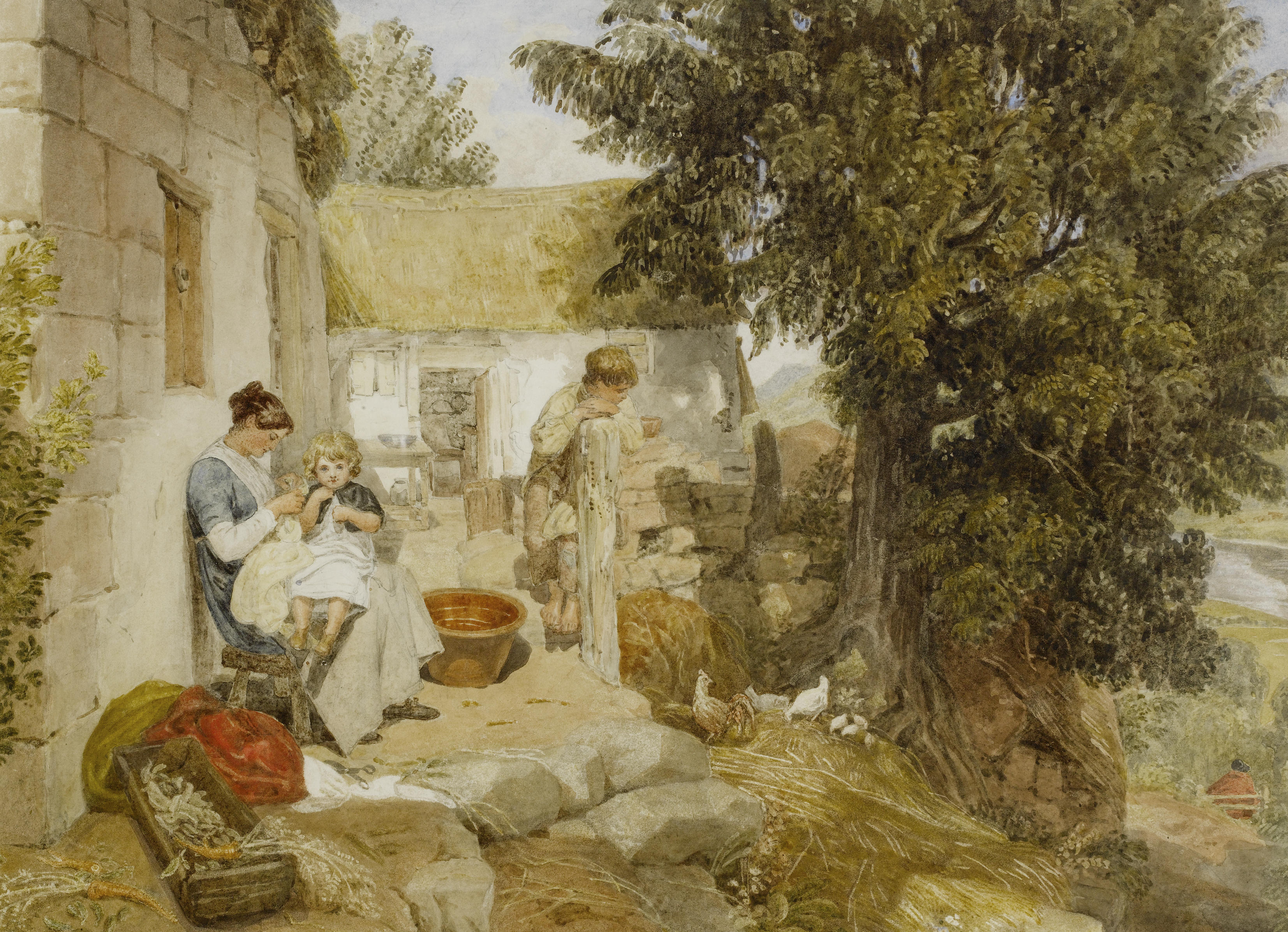 A Cottage on the side of Symond's Rock near Goodrich, Herefordshire. Signed and dated J. Cristall 1825, inscribed A Cottage on the side of Symond's Rock / near Goodrich - Herefordshire. Watercolour and pencil, 41 x 56 cm